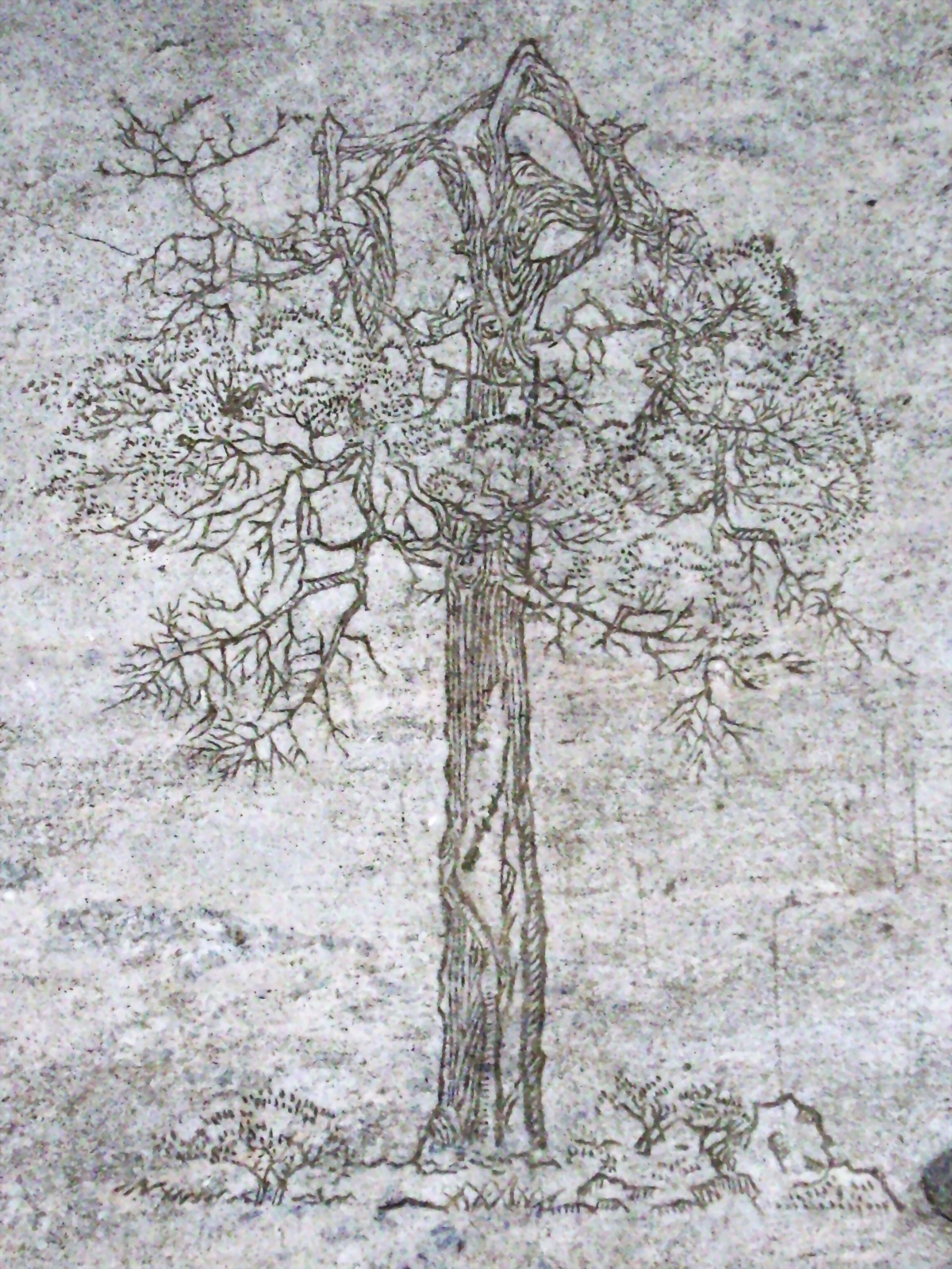 六朝松石刻.